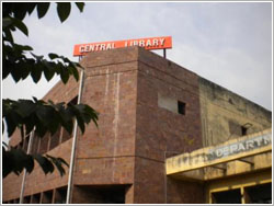 Image of Central Library of IGIT,Sarang,Odisha,India